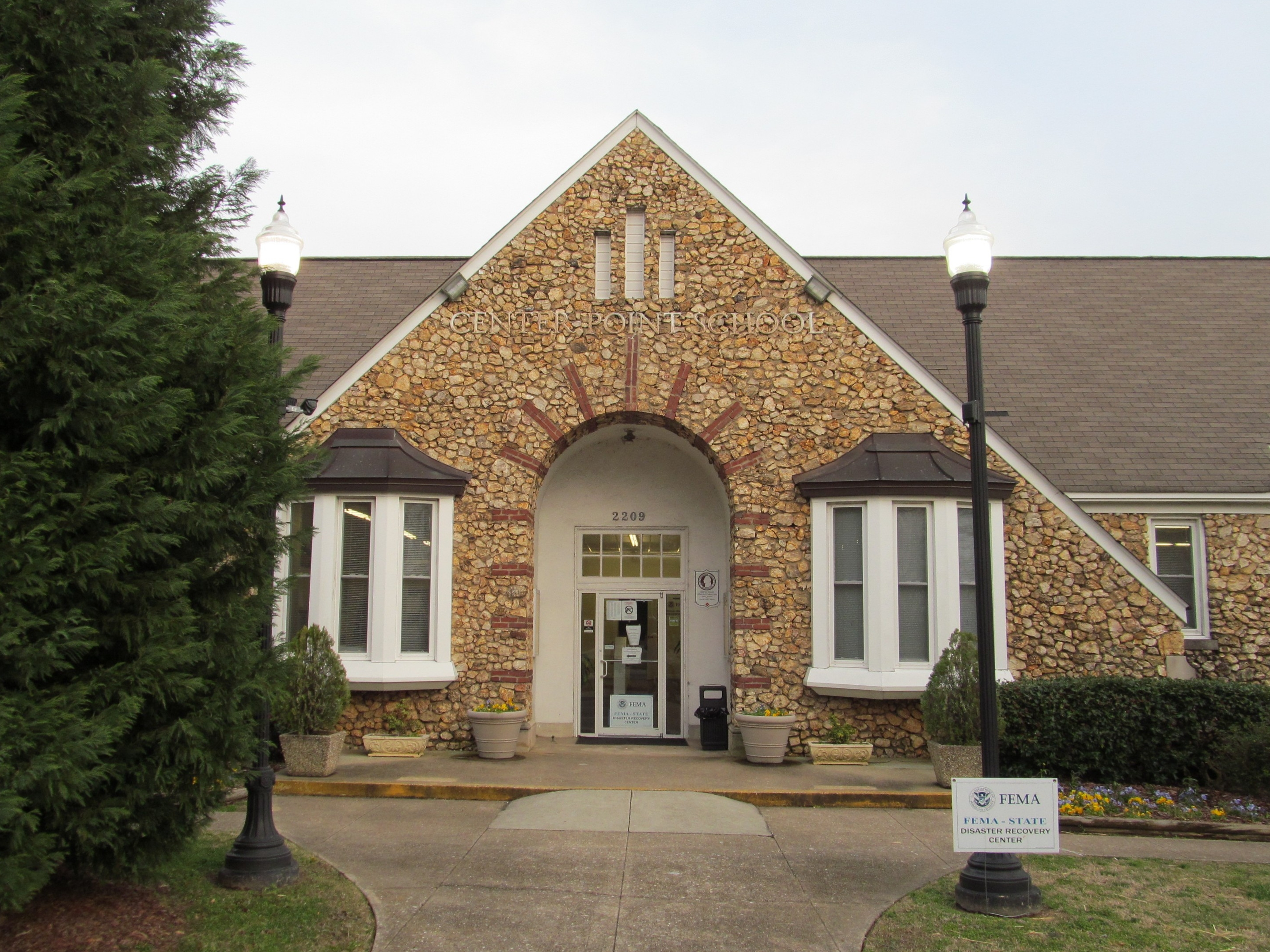 Center Point School, Center Point Alabama